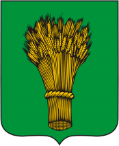 Ostrogozhsk (Voronezh oblast), coat of arms (1781)